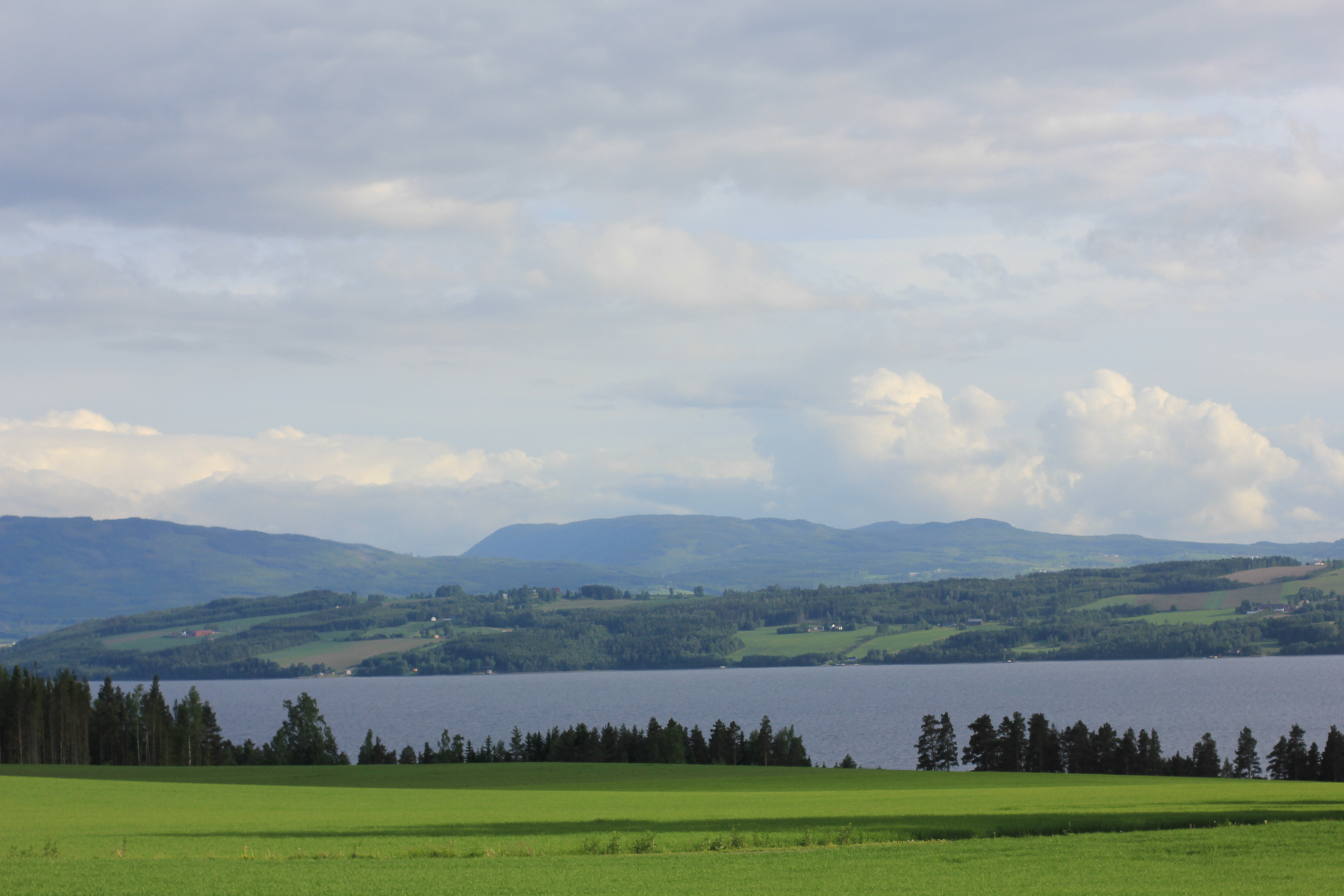 Østre Toten and Lake Mjøsa, Norway, seen from Helgøya.